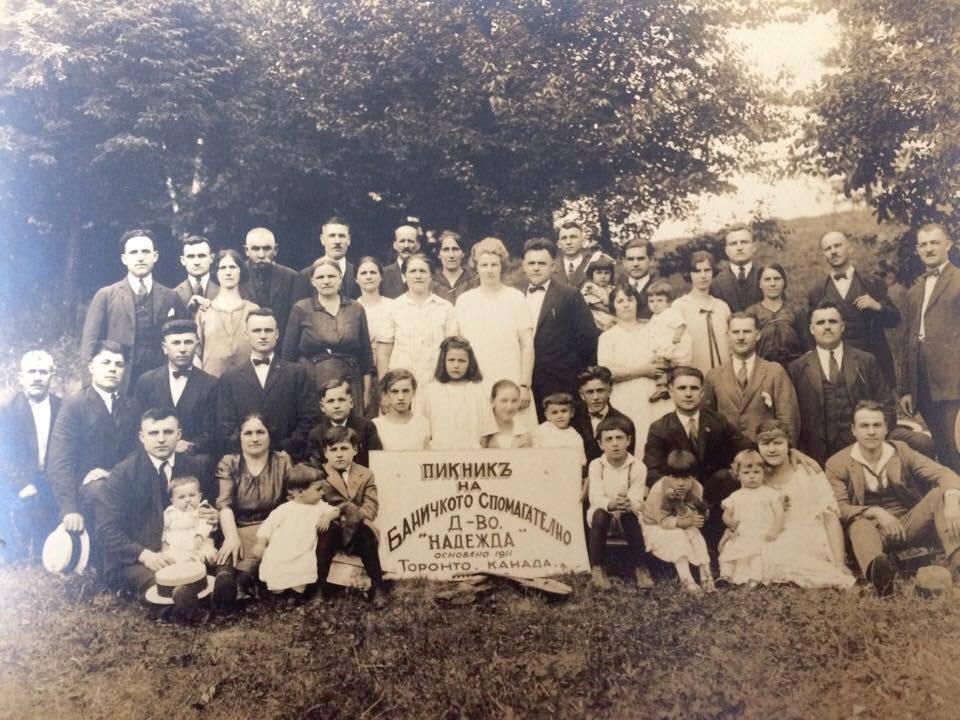 Banitsa society, Toronto,1911